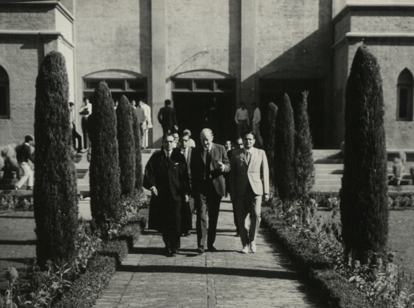 At the Chittagong University, Chittagong, Pakistan, 1970. Our Catalogue Reference: Part of CO 1069/511. This image is part of the Colonial Office photographic collection held at The National Archives. Feel free to share it within the spirit of the Commons. Please use the comments section below the pictures to share any information you have about the people, places or events shown. We have attempted to provide place information for the images automatically but our software may not have found the correct location. For high quality reproductions of any item from our collection please contact our image library